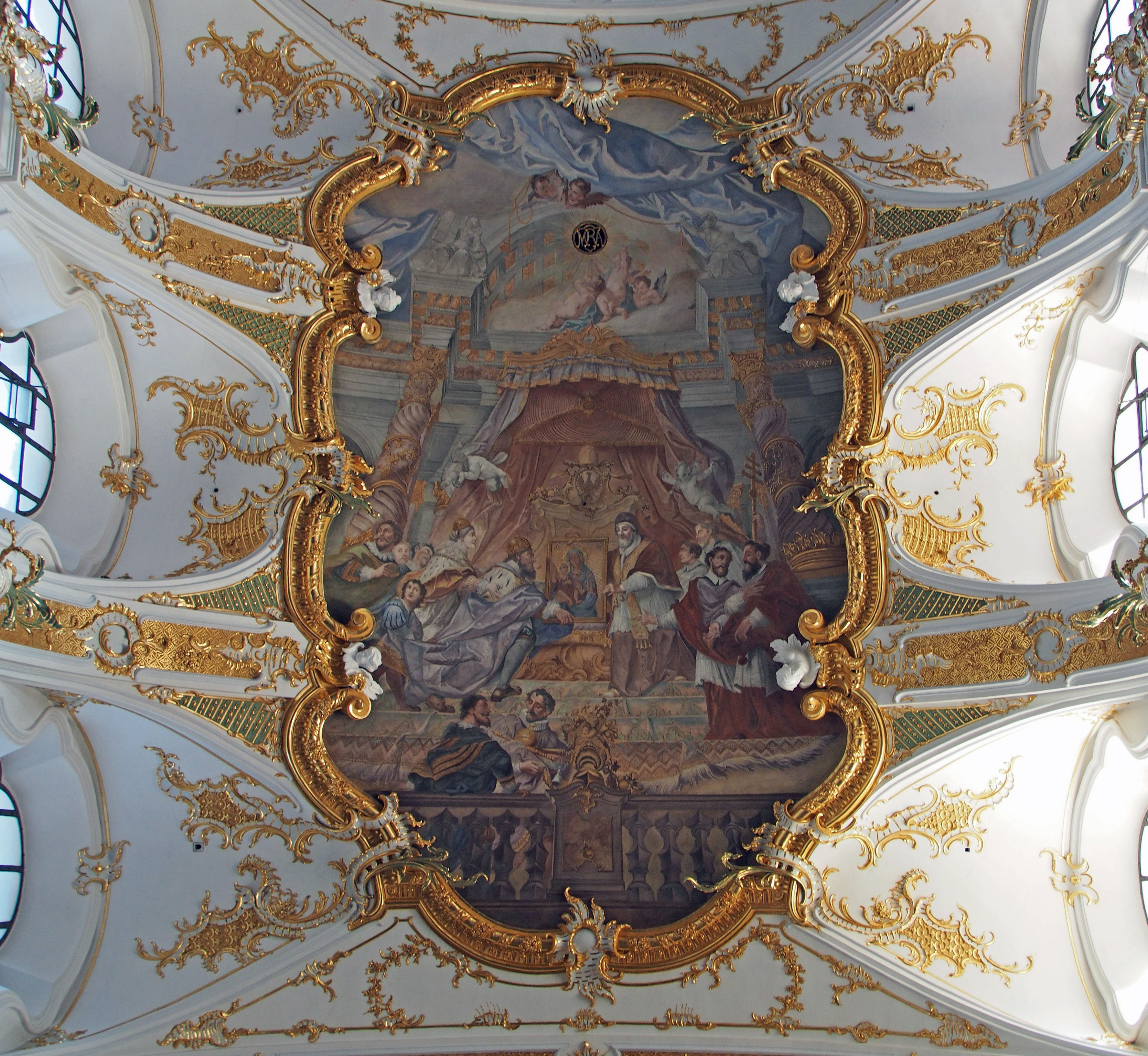 Fresco by Christoph Thomas Scheffler, 1752, above the crossing in the Old Chapel of Our Lady in Regensburg, Bavaria, Germany. Framed by gilded stucco, Mary is depicted as the Queen of Heaven, surrounded by the Faithful.